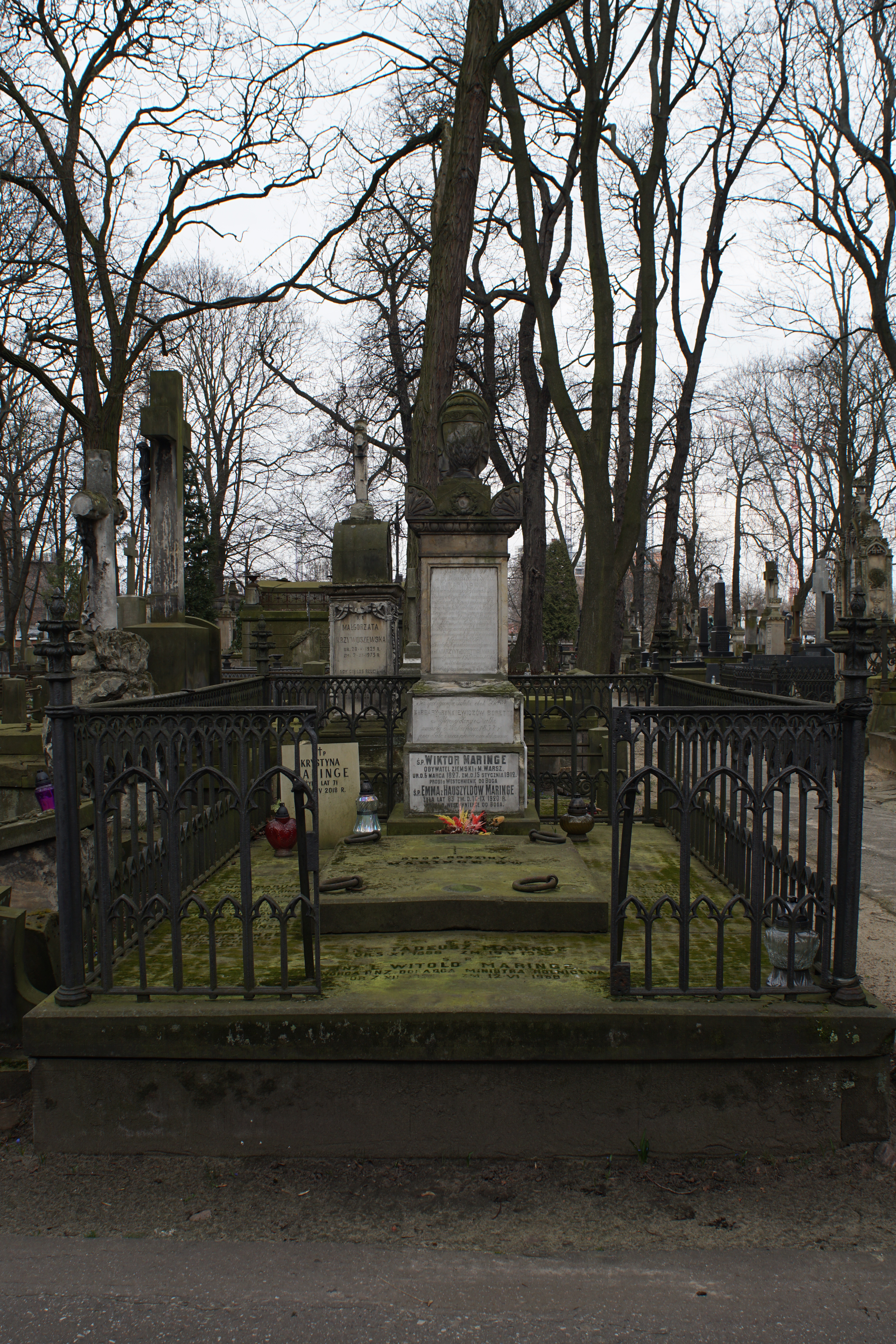 The grave of Wiktor Maring at the Powązki Cemetery (section 4, row 1, grave 29, 30, 31)